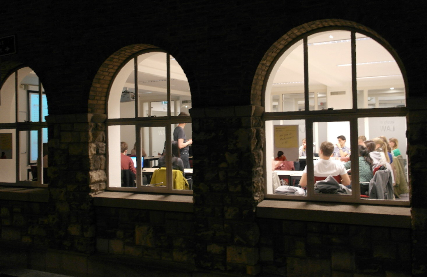 Maastricht, the Netherlands. View from Bouillonstraat of former provincial government administration building (Oud Gouvernement), now housing the University of Maastricht's Faculty of Law.